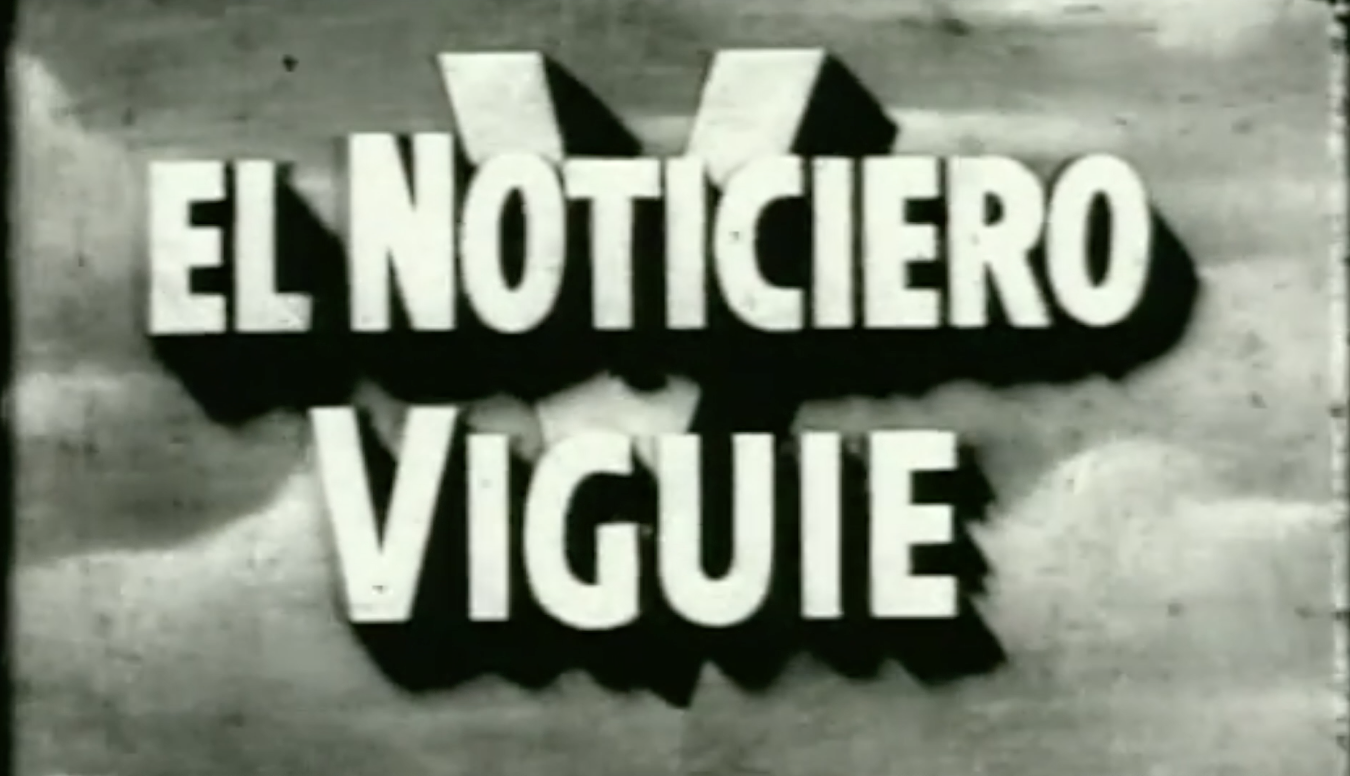 Viguié Tele News - "El Noticiero Viguié"